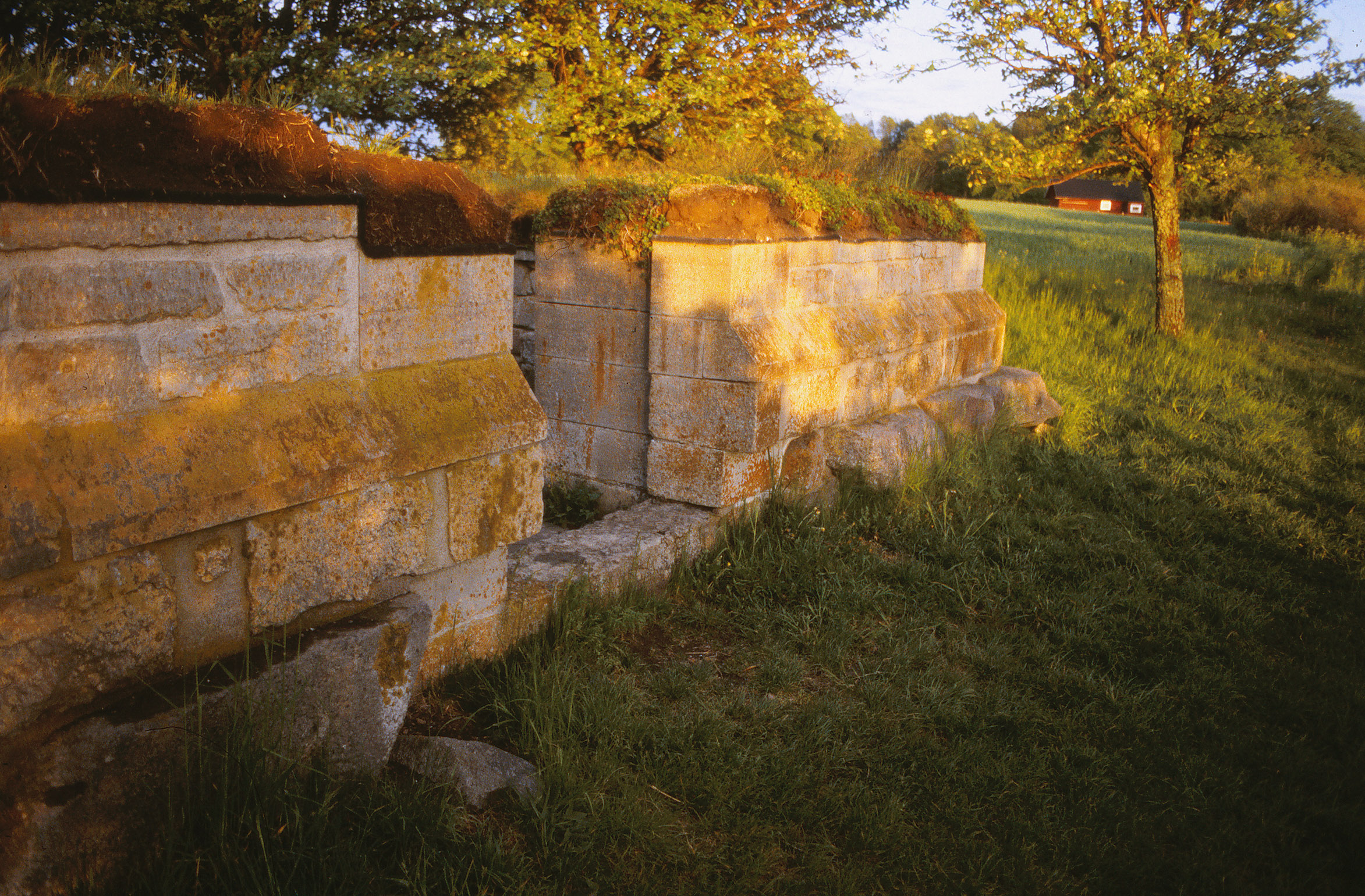 The "King Sverker chapel" near the Alvastra monastery in Sweden.